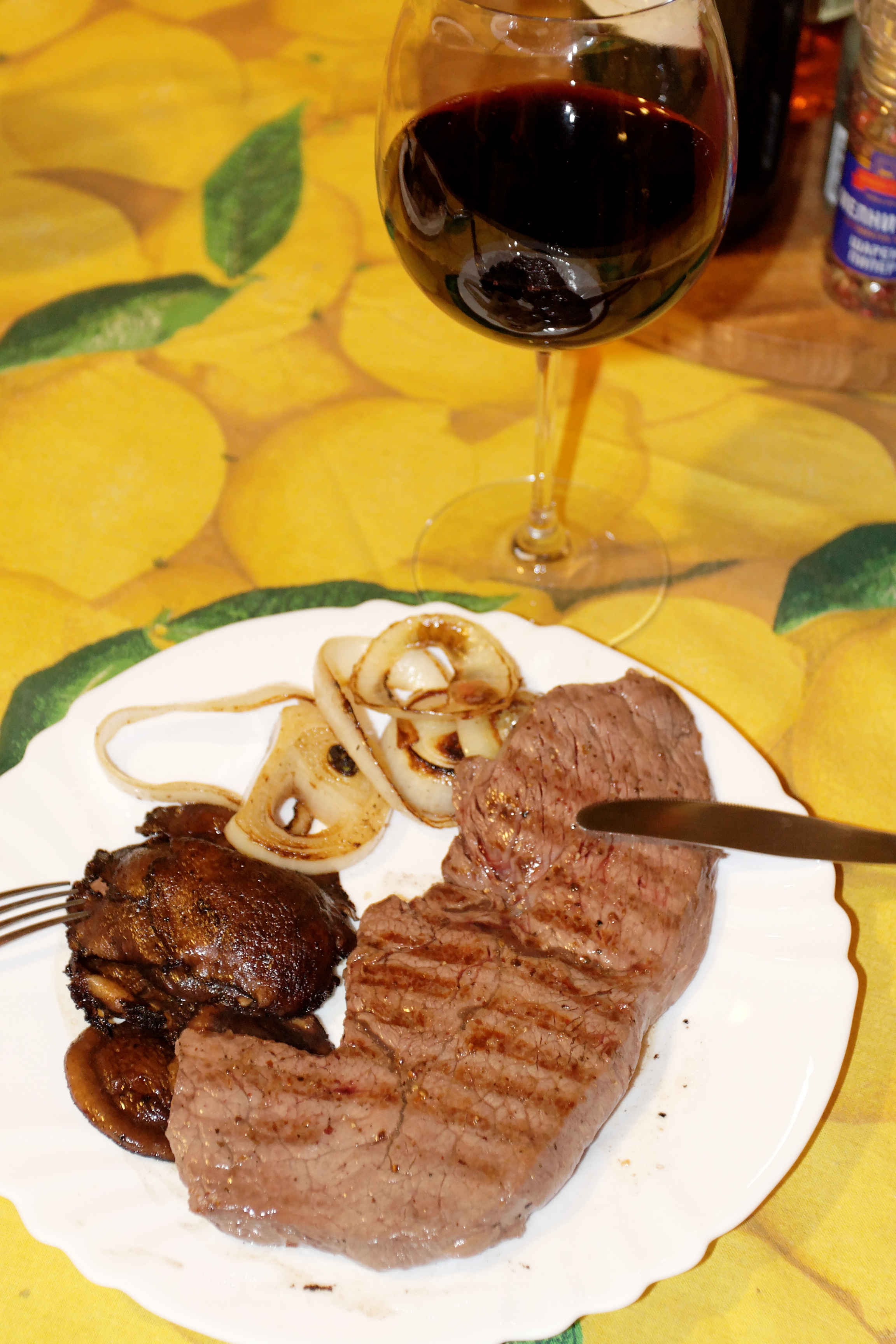 Beef steak with onions and shiitake mushrooms and Trapiche malbec